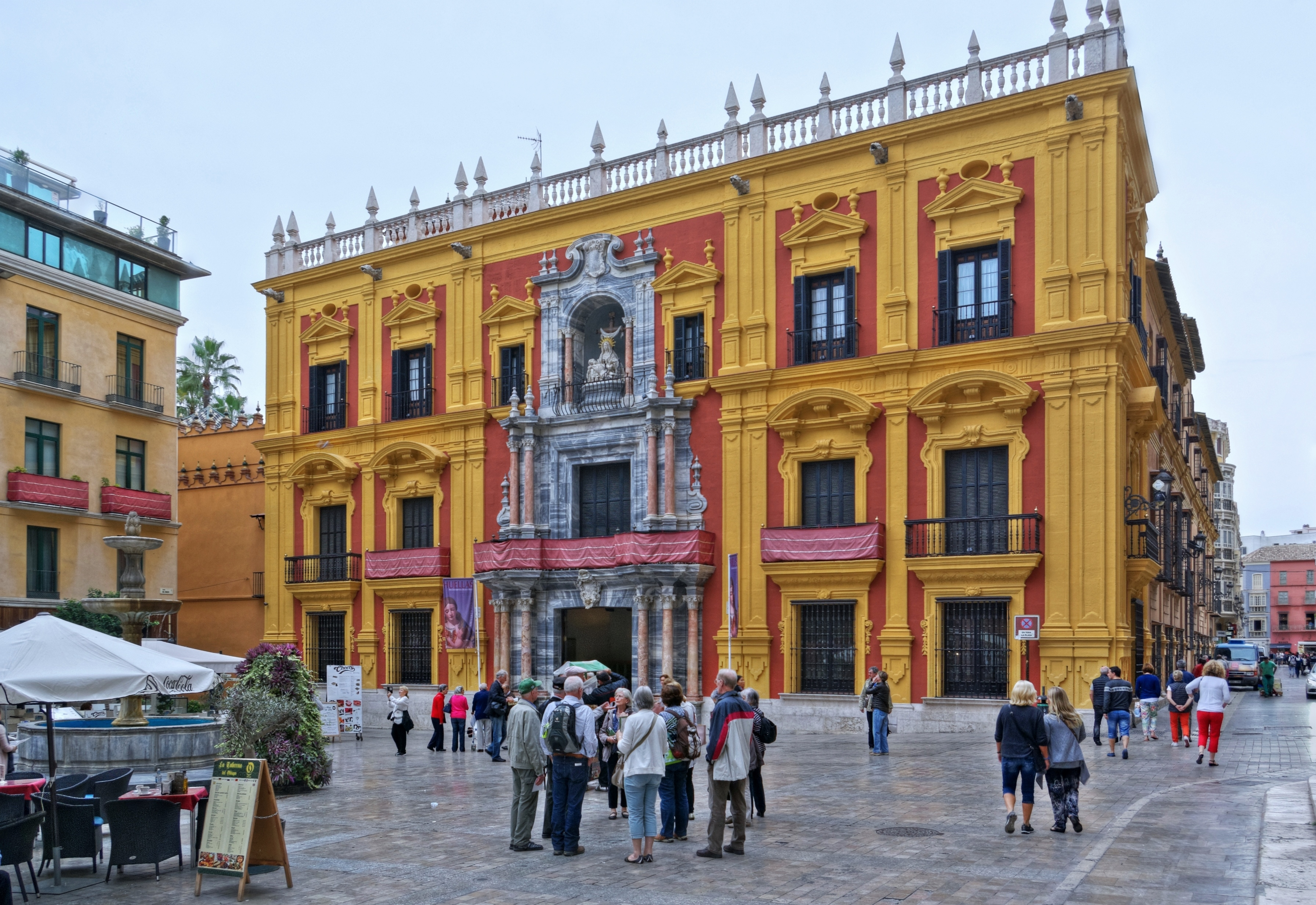 Spain, Malaga, Palacio Episcopal